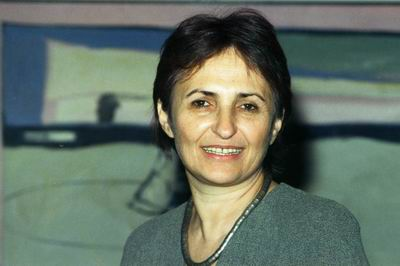 Photograph